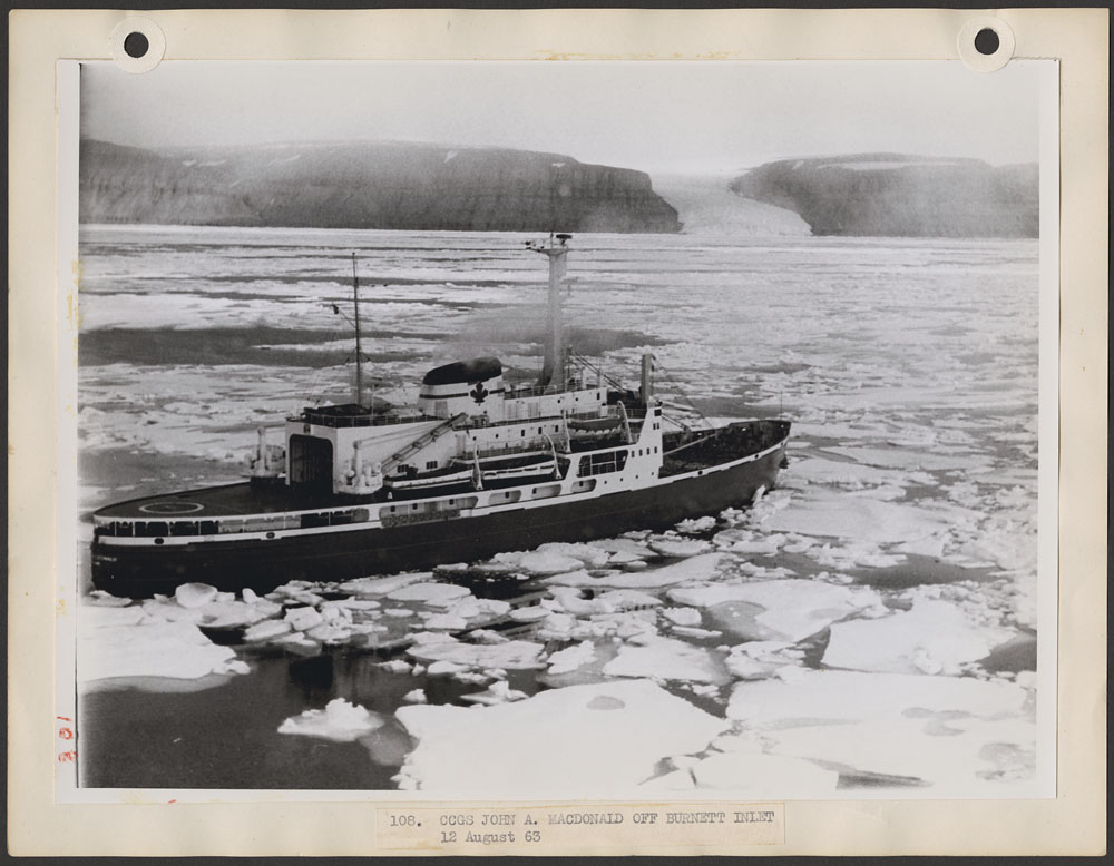 The CCGS John A. Macdonald off Burnett Inlet